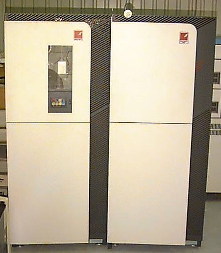 This Sequent S81 machine previously cared for by the now-defunct Dallas Fort Worth Computer User Group's Historical Computer Preservation Society has twenty 80386 processors, a 9-track tape drive, and several Fujitsu Eagle hard drives. This "low cost supercomputer", or "poor man's Cray", ran a symmetric multiprocessing UNIX-like OS called DYNIX and cost $1,000,000 in 1990. "The Processor cabinet on the right has an air-cooled cage filled with approximately 12x14 inch circuit cards, some of which hold subsets of the twenty non-heatsinked Intel 386 processors. It was possible to restore the machine to operation by removing the card with the broken processor, although there may undoubtedly have been a more elegant 'repair' solution such as 'parking' the CPU. Power was 208/240VAC. It is a wonderful machine with great performance but not economical to operate continuously in a hobby scenario, and its full utilization would be too complex for many computer hobbyists to achieve." -Opcom, DFWCUG HCPS